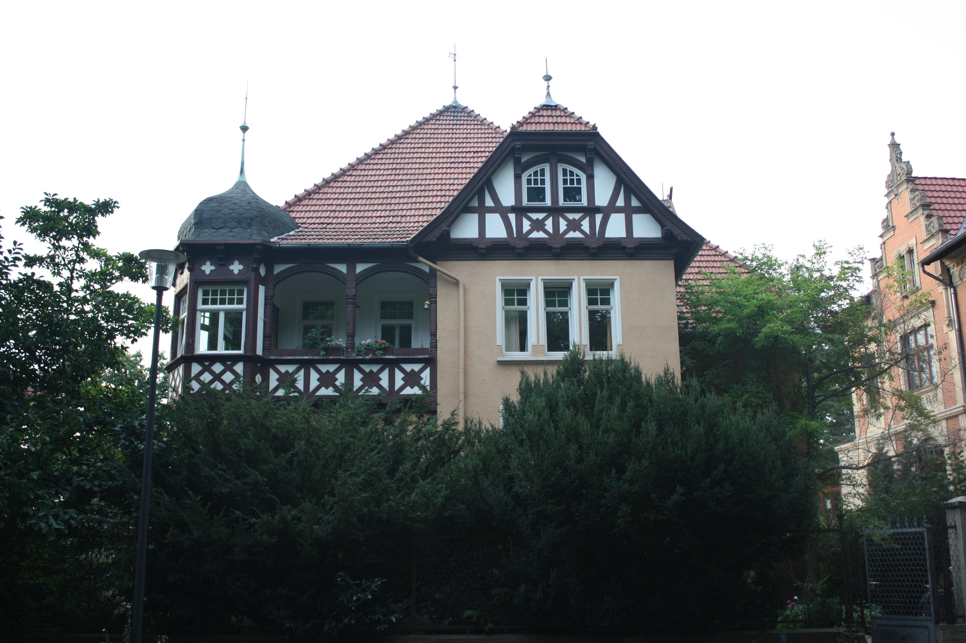 This is a photograph of an architectural monument.It is on the list of cultural monuments of Quedlinburg Brühlstraße 05 (Quedlinburg)